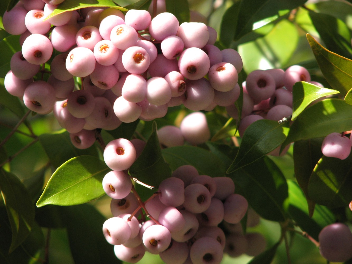 Syzygium smithii , (cultivated, unlabelled) Melbourne, Australia